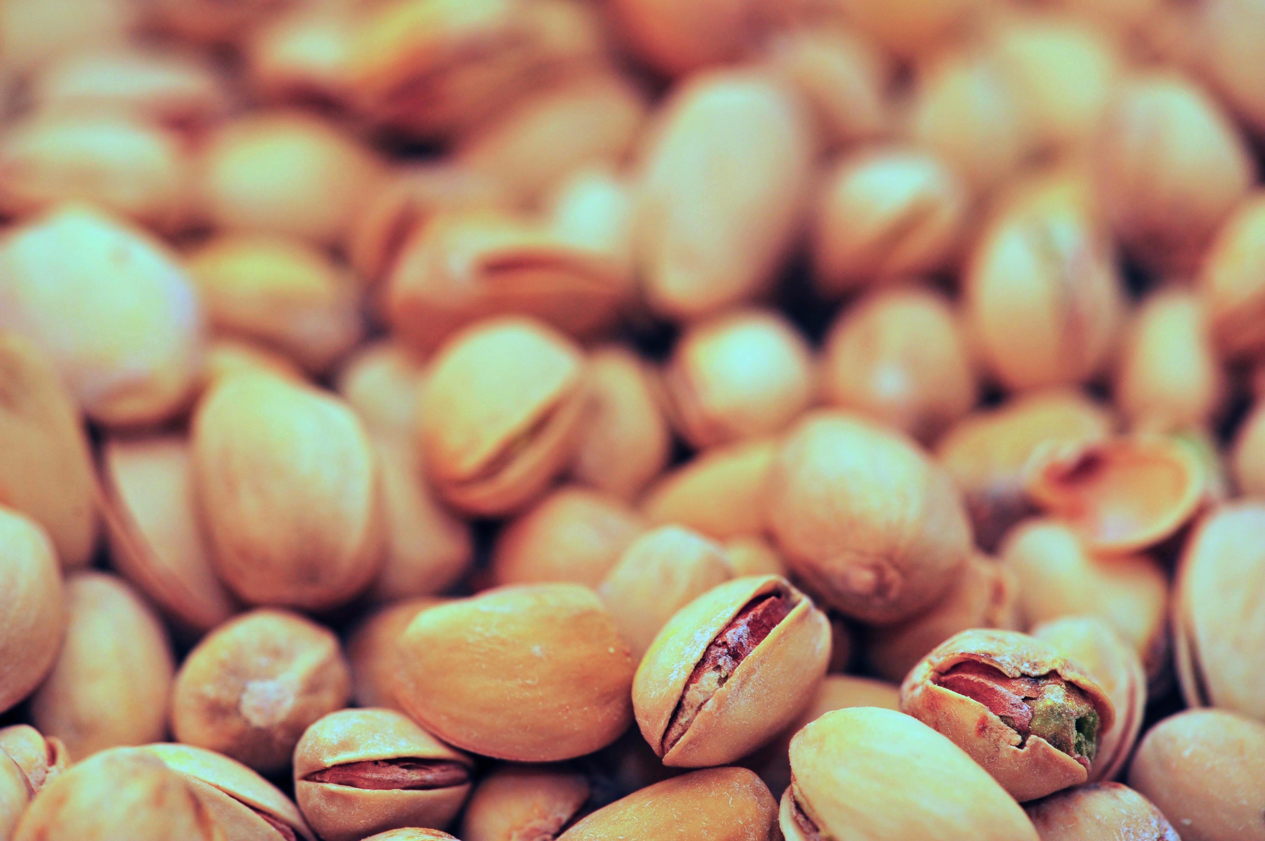 Taken by myself - MadMaxMarchHare And, yeah, these are Pistachios... why I thought they were pecans, I'll never know..